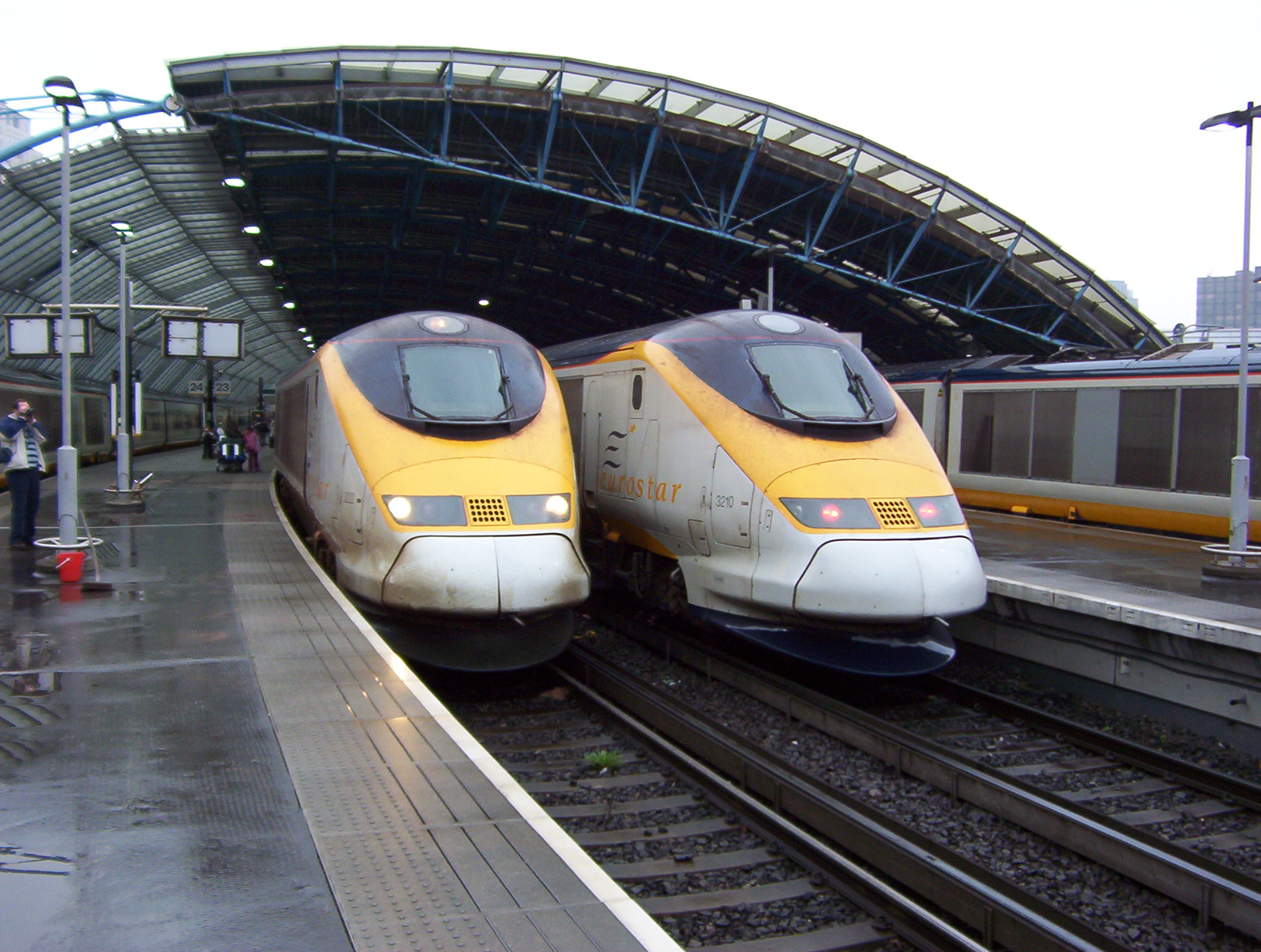 Two Eurostars at Waterloo International. Eurostar trains used this station from 1994 to 2007. Because the trains ran on existing lines when running out of Waterloo International (the South Western Main Line, Brighton Main Line, Chatham Main Line, South Eastern Main Line and Redhill to Tonbridge line), they had a narrower cross-section to fit the narrower British loading gauge and also had shoegear to pick up power from a third rail electrified at 750V DC. When services transferred from Waterloo to St Pancras in 2007, the shoegear was removed and operating speeds increased. Willkm 00:50, 4 December 2005 (UTC)